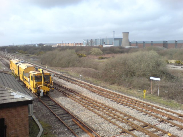 Ballast spreader at Llandilo Junction A ballast spreader parked at Llandilo Junction. In the distance, Trostre steel works can be observed.